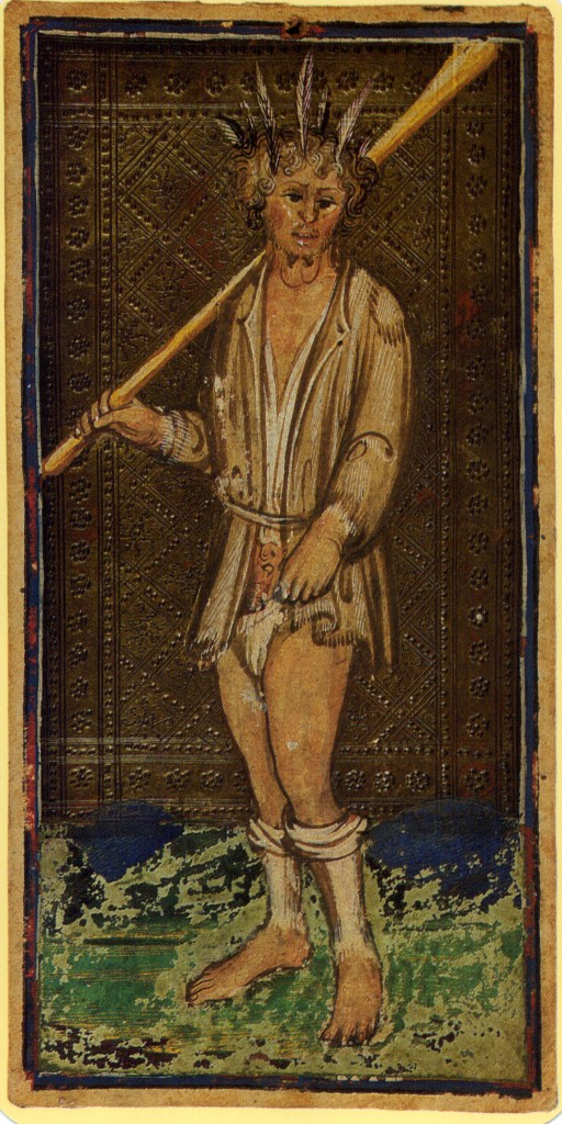 The Fool (tarot card), in Visconti Sforza tarot deck, beautifully drawn in the mid XVth century by Italian artist Bonifacio Bembo for the Visconti and Sforza dukes of Milan. Four cards (out of seventy-eight) are lost from the deck (the fifteenth and sixteenth major arcana—respectively the Devil and the Tower—, the Knight of Coins, and the Three of Swords), thus seventy-four cards remain.